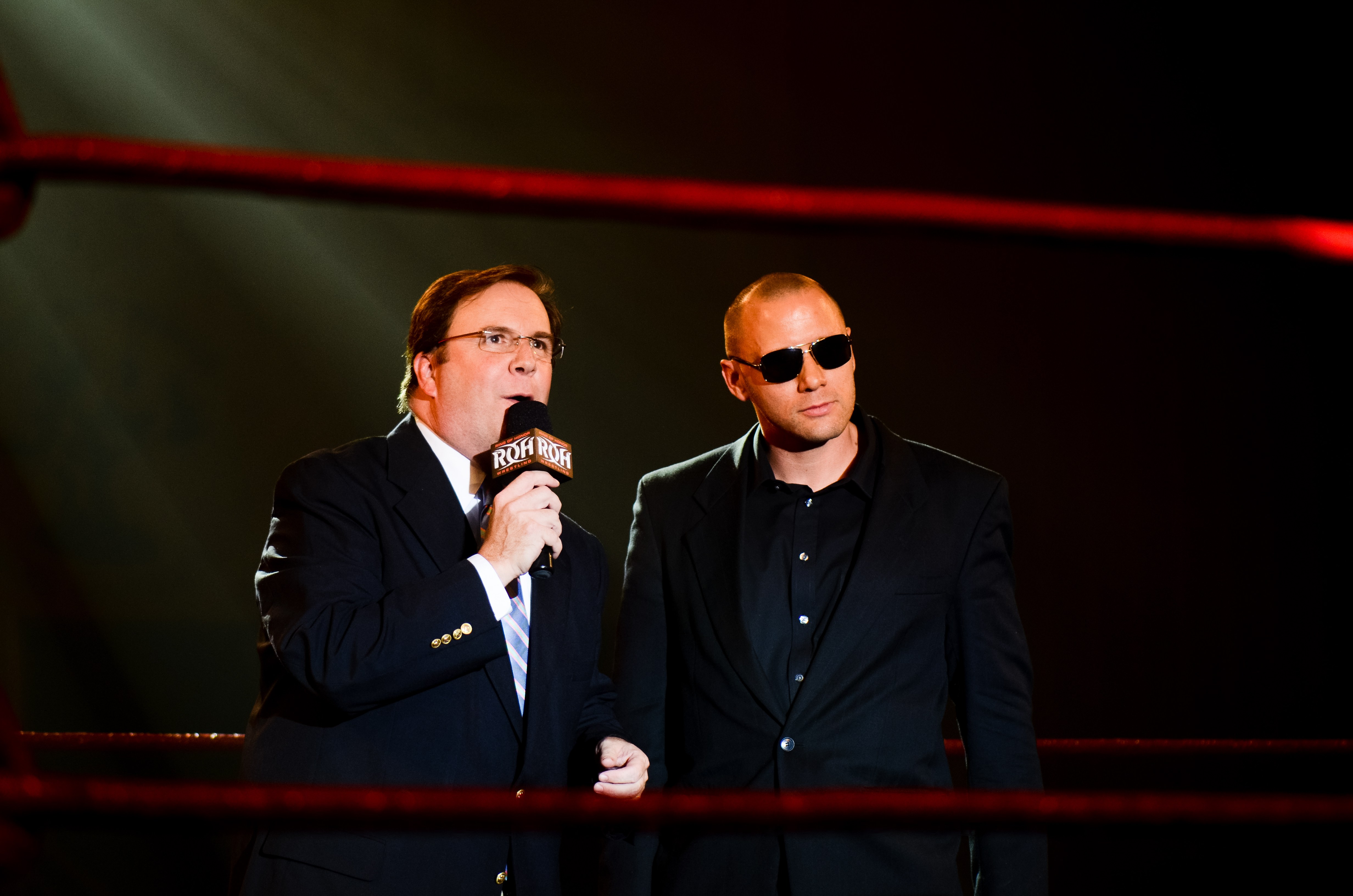 Kevin Kelly (left) and Nigel McGuinness (right), the commentators for Ring of Honor Wrestling, at a Ring of Honor show on August 13, 2011.